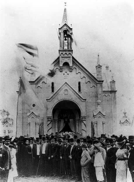 Inauguration of the Jesús en el Huerto de los Olivos church in the Olivos district of Vicente López Partido, Buenos Aires.